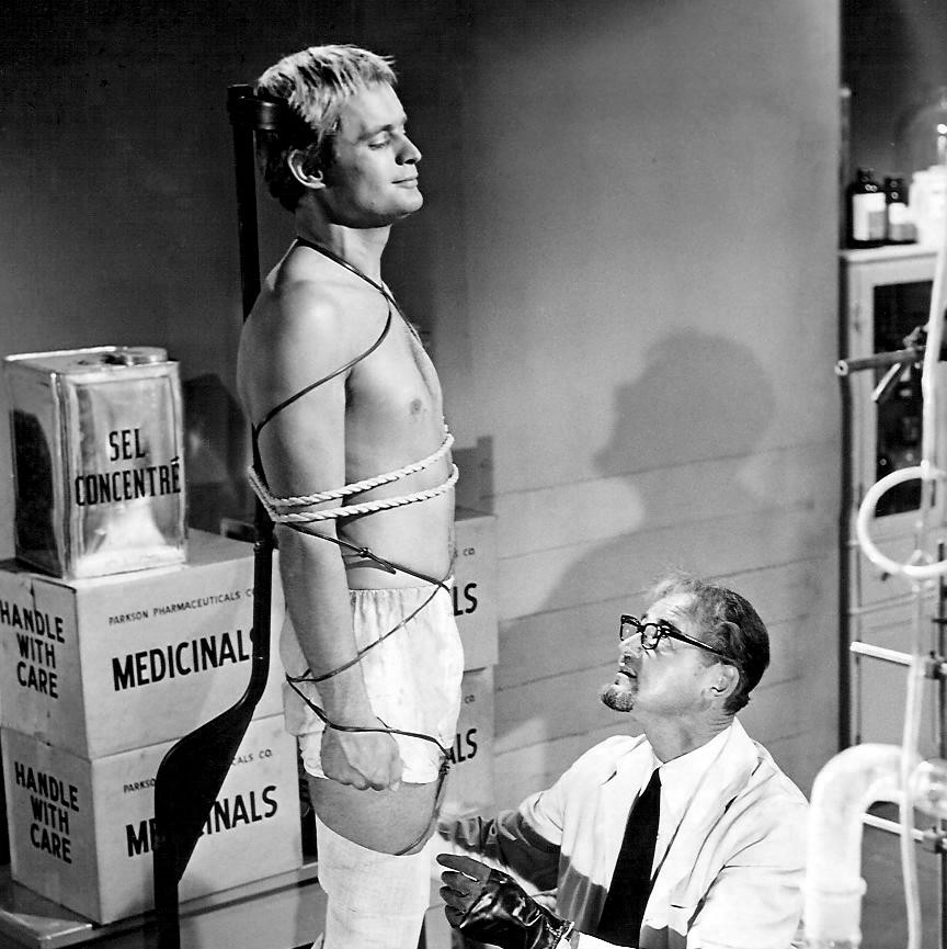 Photo of David McCallum and David Opatoshu from the television program The Man From U.N.C.L.E.. The episode is "The Alexander the Greater Affair" and Opatoshu plays a mad scientist who intends to turn the drugged Illya into a mummy while still living.